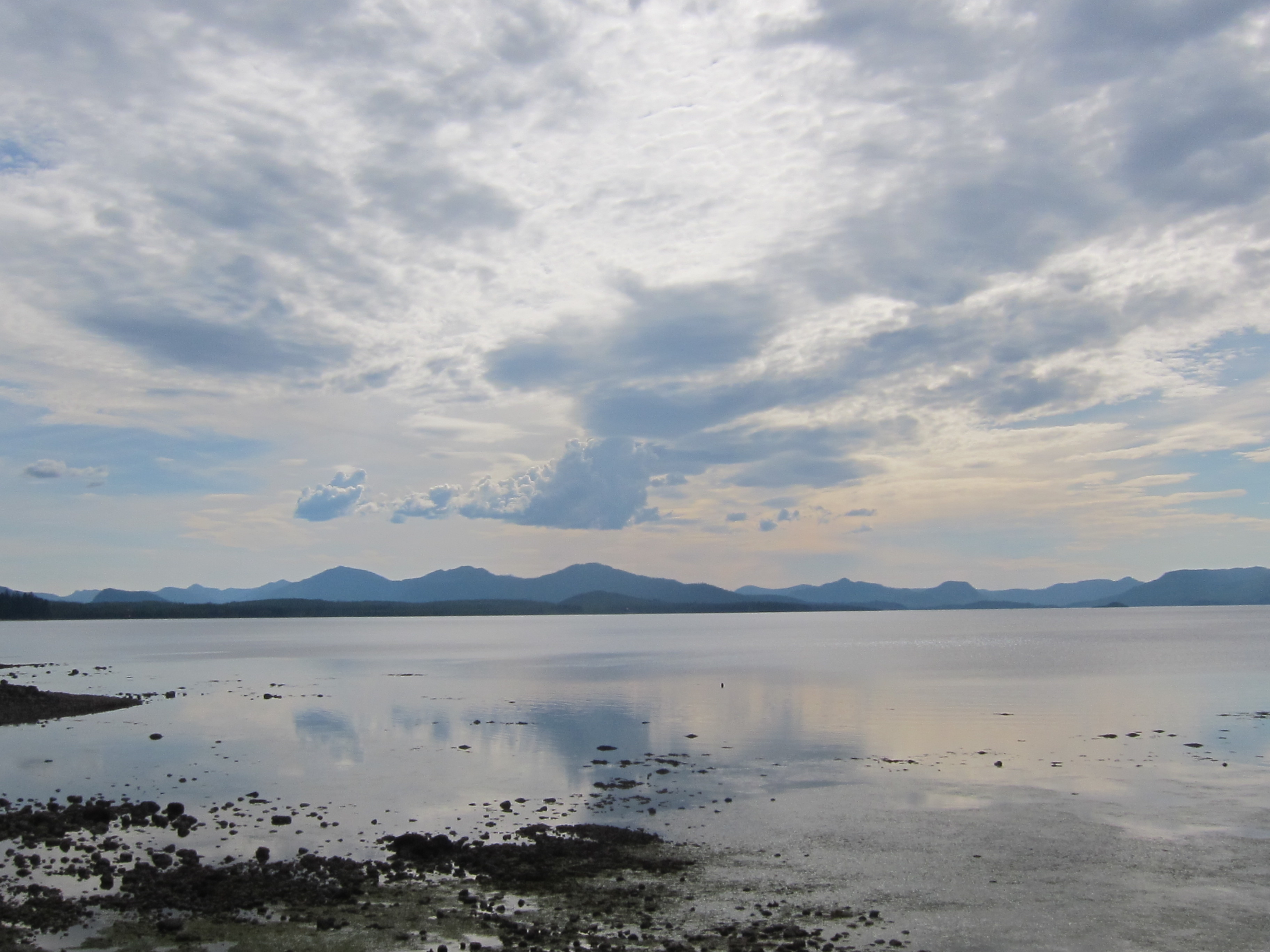 Massett Inlet from Port Clements harbour, Haida Gwaii, Canada